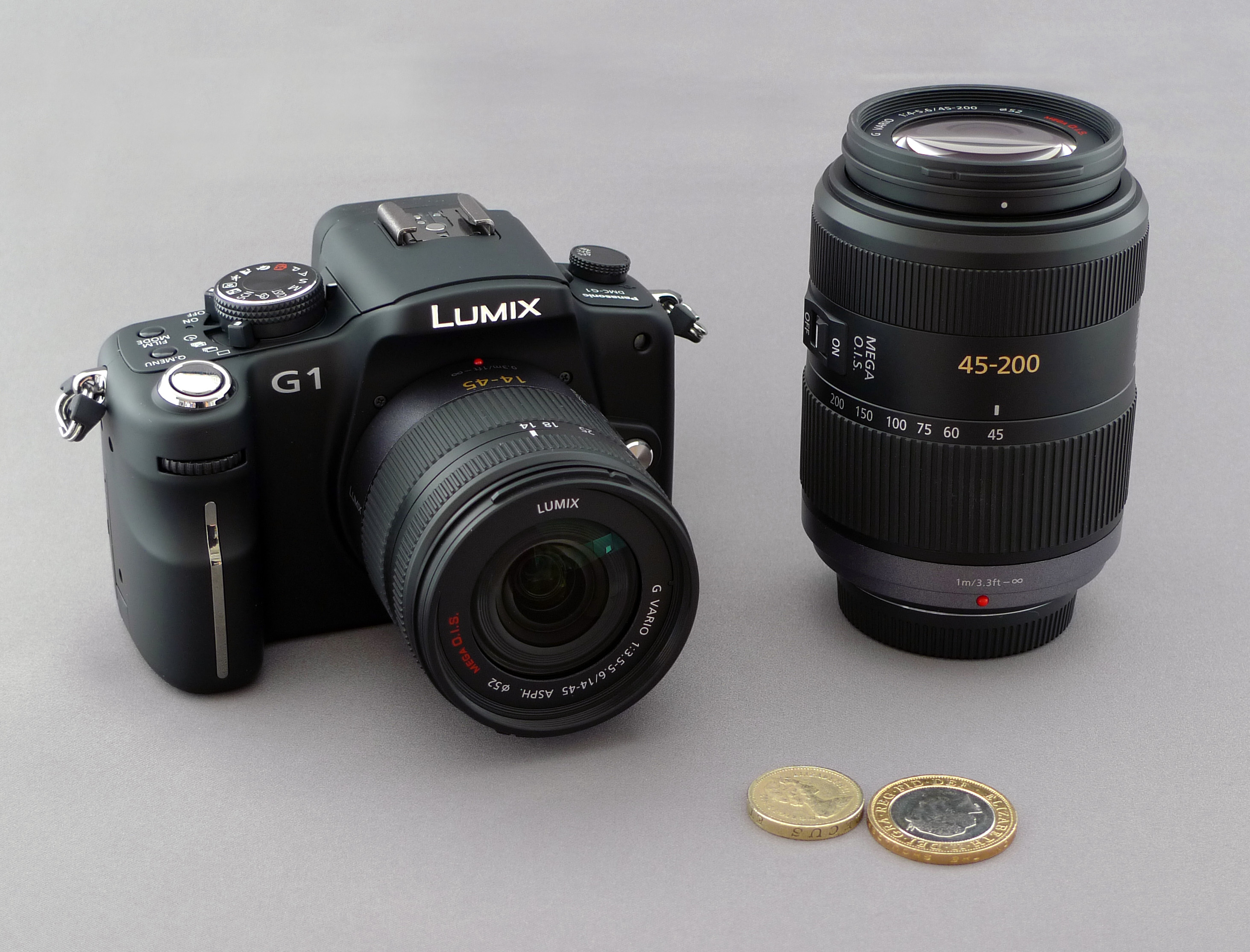 After a few years of using compact digital cameras for taking my photographs, I decided to return to using a DSLR as my primary image-capture device. I have spent the last few months deliberating over the Nikon D700 and Canon EOS 5D Mark II. The quality of their images (especially in low light) are markedly better than my Lumix LX3, but their bulk was offputting. I have decided to compromise, and purchased Panasonic's foray into the 'micro four thirds' format. As well as being markedly smaller than its DSLR competition (I will be able to carry the body and smaller zoom around with me in my existing laptop bag) the above 'kit' gives me the equivalent of a 28-400mm zoom range for a very reasonable price.